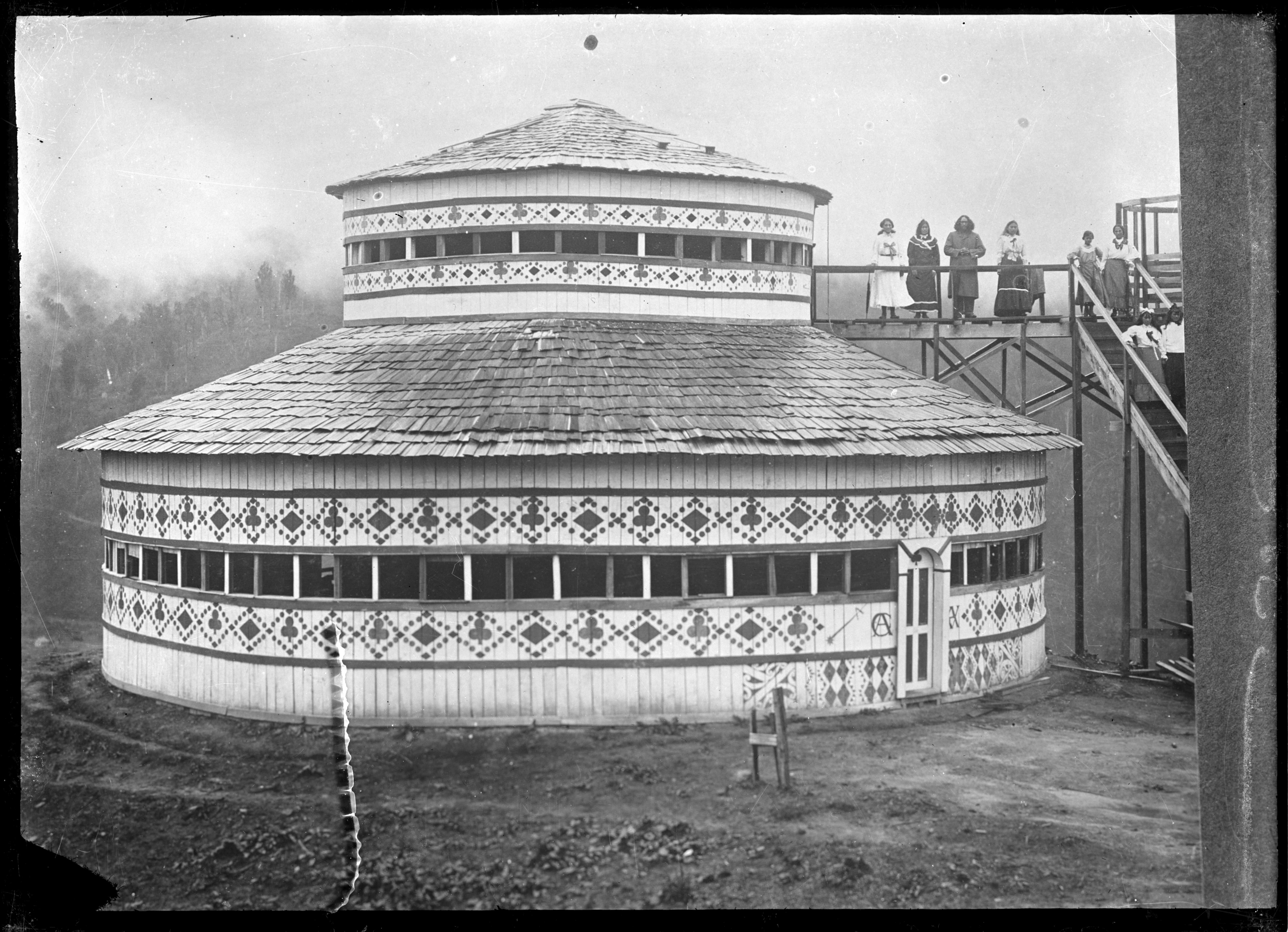 Rua Kenana Hepetipa's wooden circular courthouse and meeting house (also known as Hiona and Te Whare Kawana) at Maungapohatu, circa 1908. From left to right: Te Akakura, Te Aue, Rua Kenana Hepetipa, Whaitiri, Whakaataata, Mihiroa. Standing on steps: (? Whirimako), Pinepine Te Rika. Copy negative taken by Albert Percy Godber in 1930, of original photograph taken circa 1908 by George Bourne.